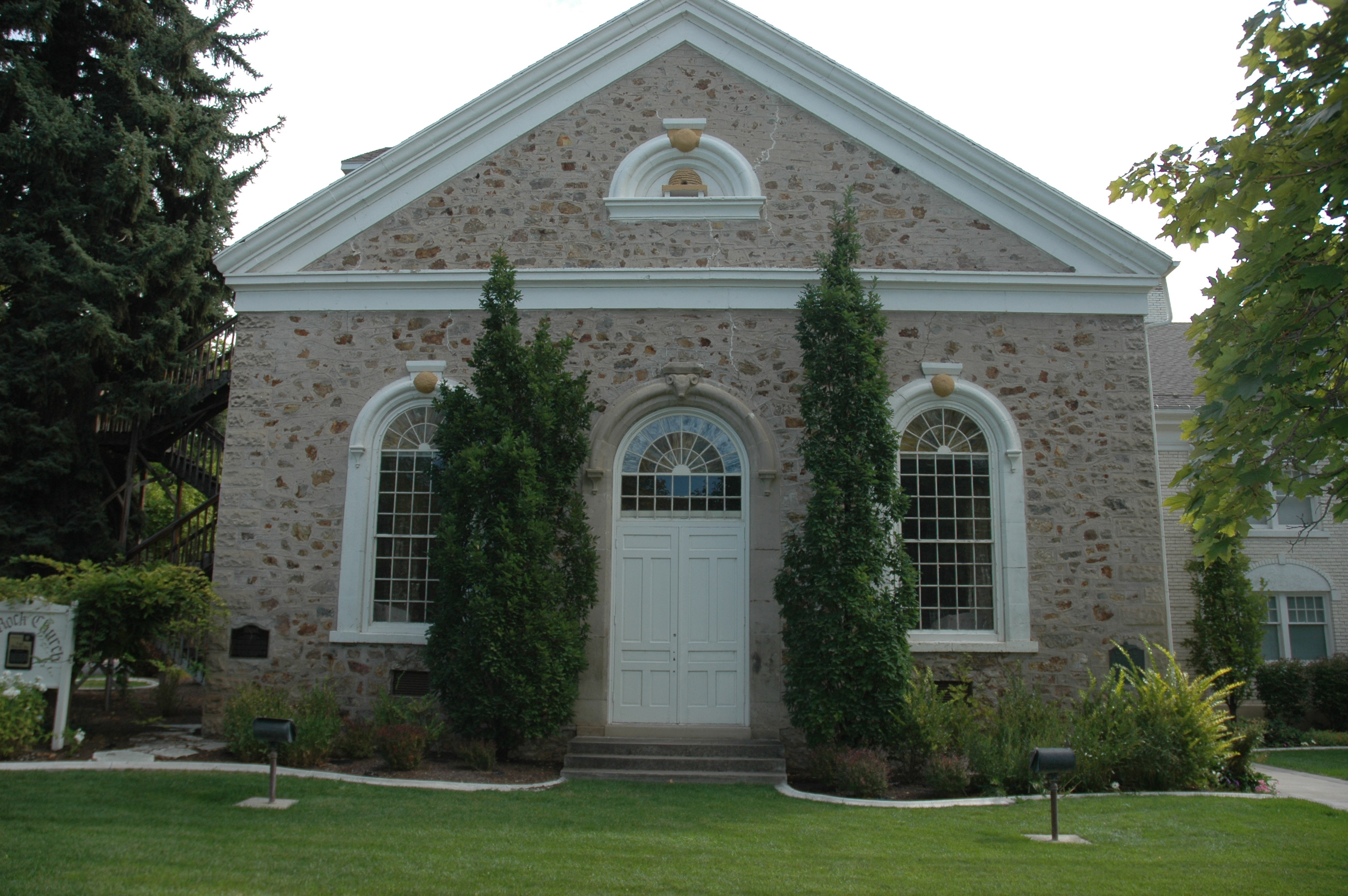 The Old Rock Church, a historic church building in Providence, Utah, United States.